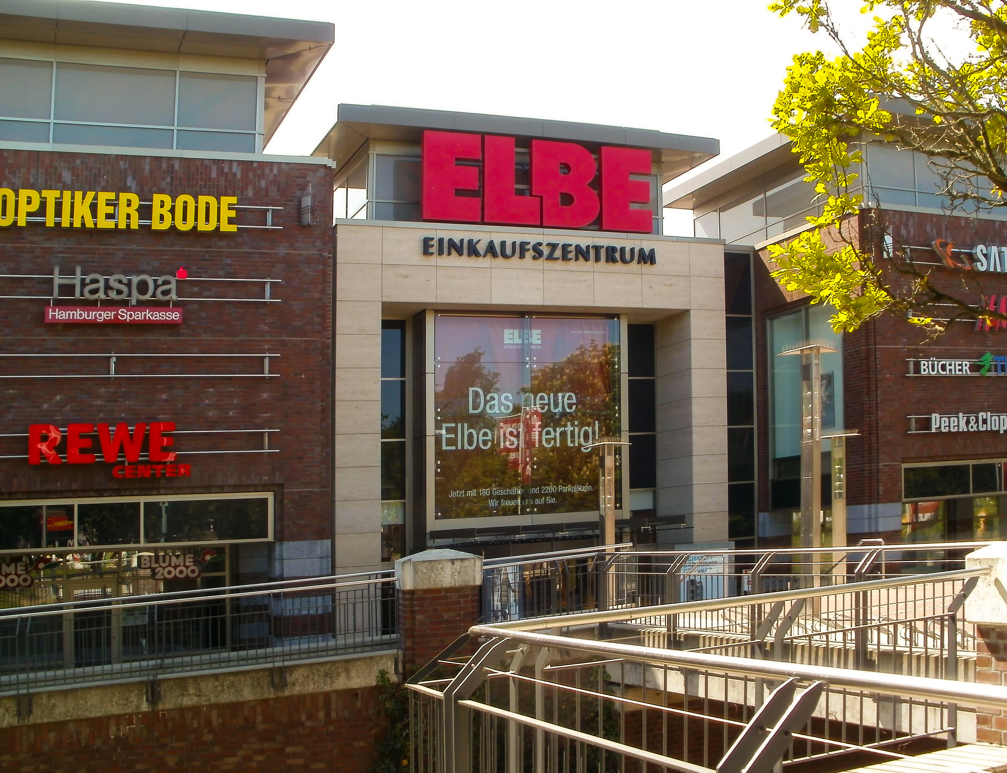 "Elbe-Einkaufszentrum" in Hamburg, Germany.